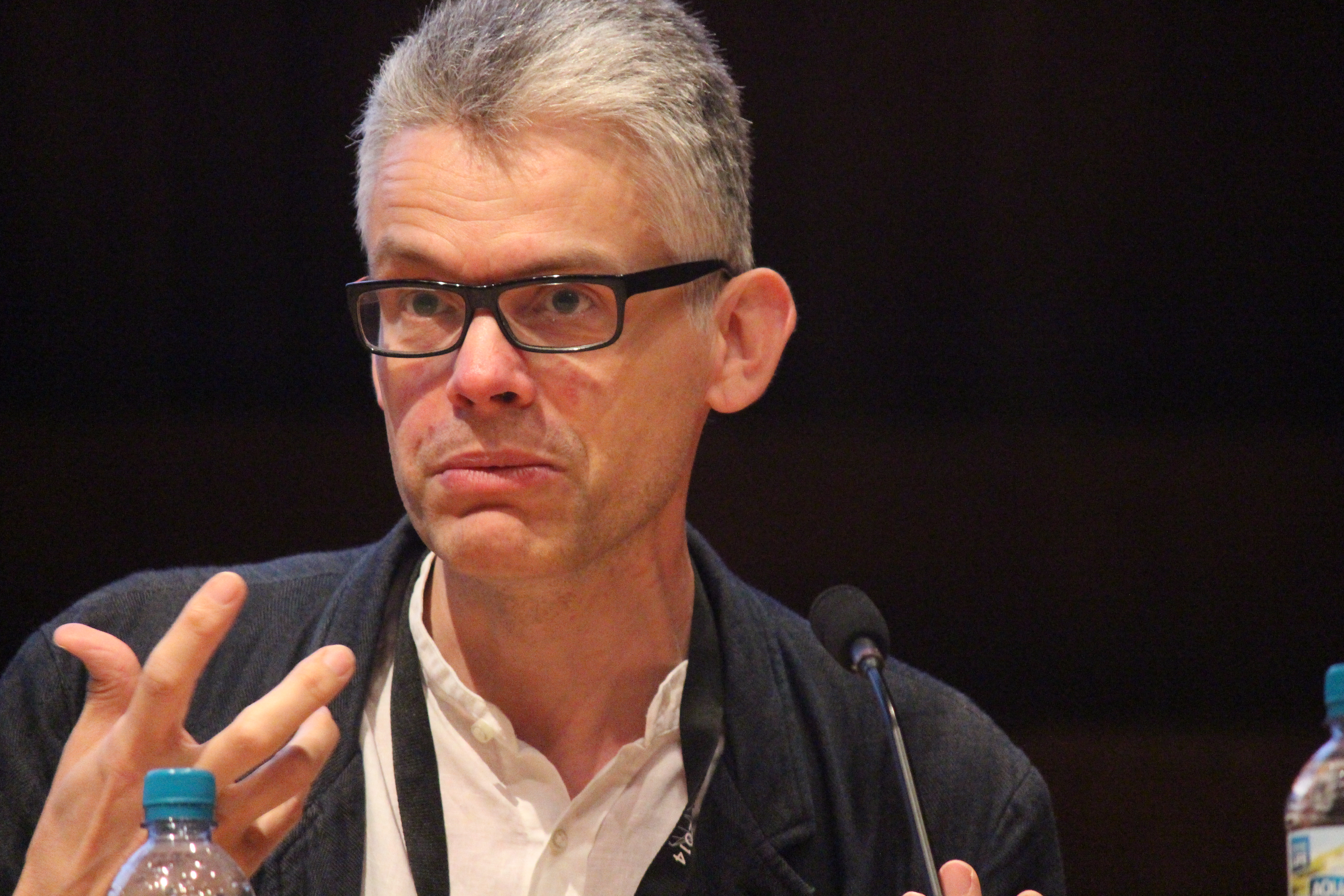 Chris Taggart at Wikimania 2014. Panel discussion at Barbican Centre, London